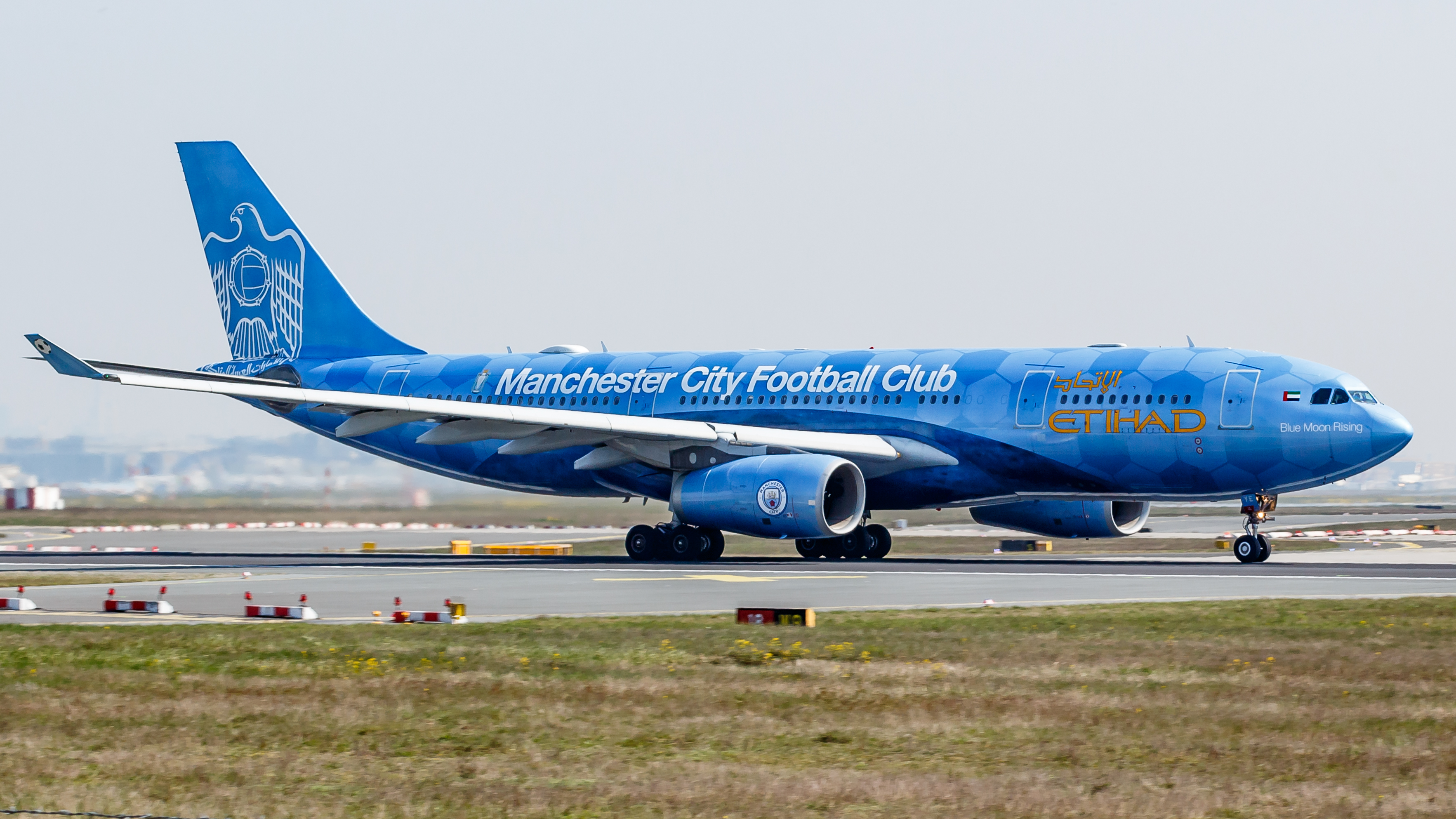 A6-EYE Etihad A332 FRA Manchester City Livery